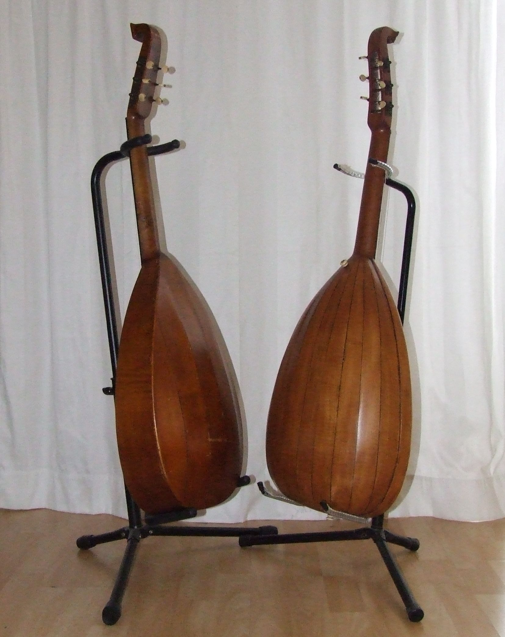 Two German guitar lutes positioned back-to-back to show the different corpus forms.